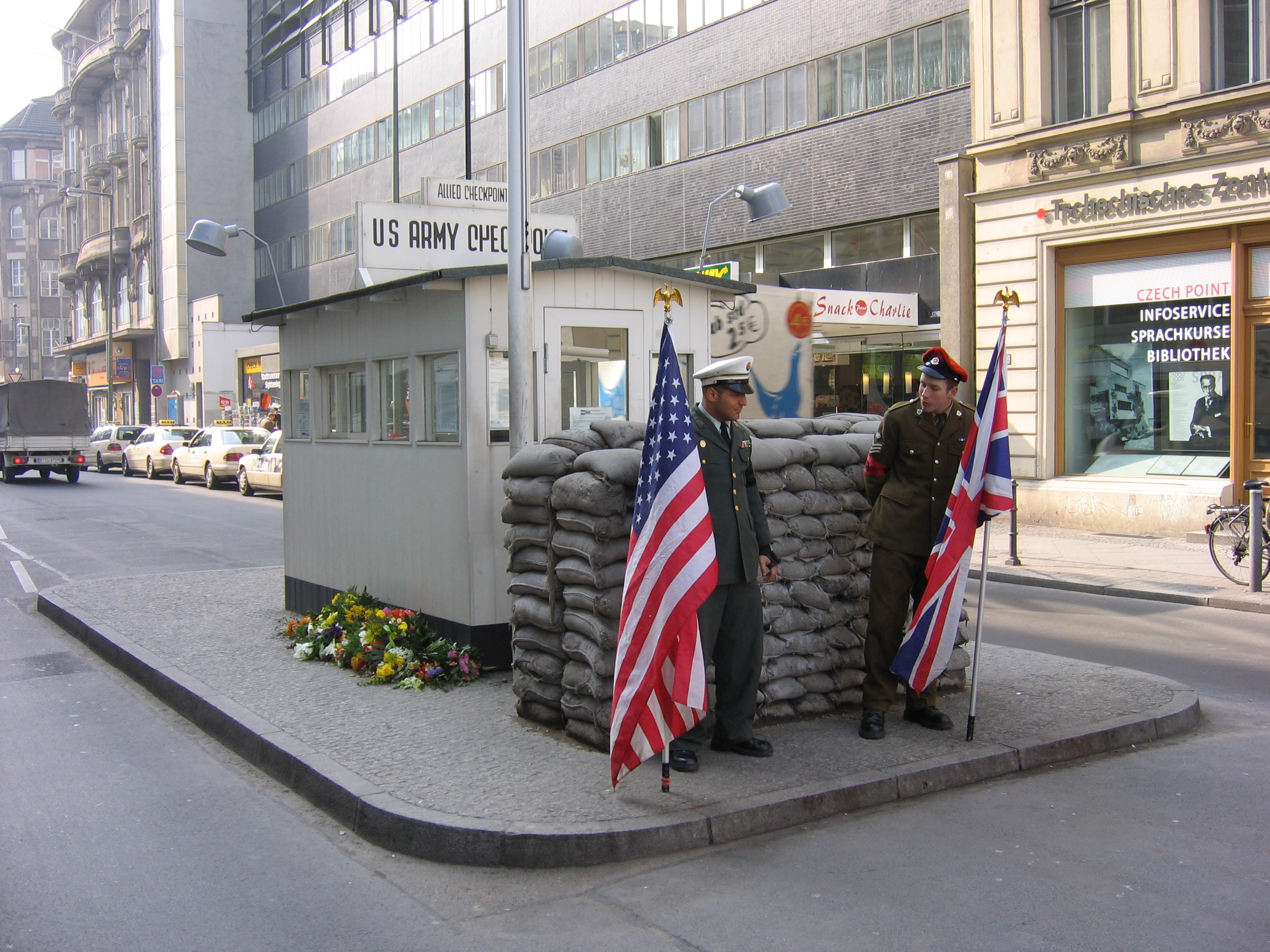 Memorial Site: Checkpoint Charlie (rebuild) in Berlin, 2005